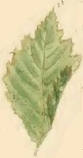 Stainton’s Natural History of the Tineina (1855–1873): Phyllonorycter schreberella mined elm leaf